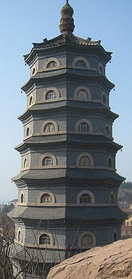 Zhanshan pagoda tower, Qingdao, Shandong province, China.